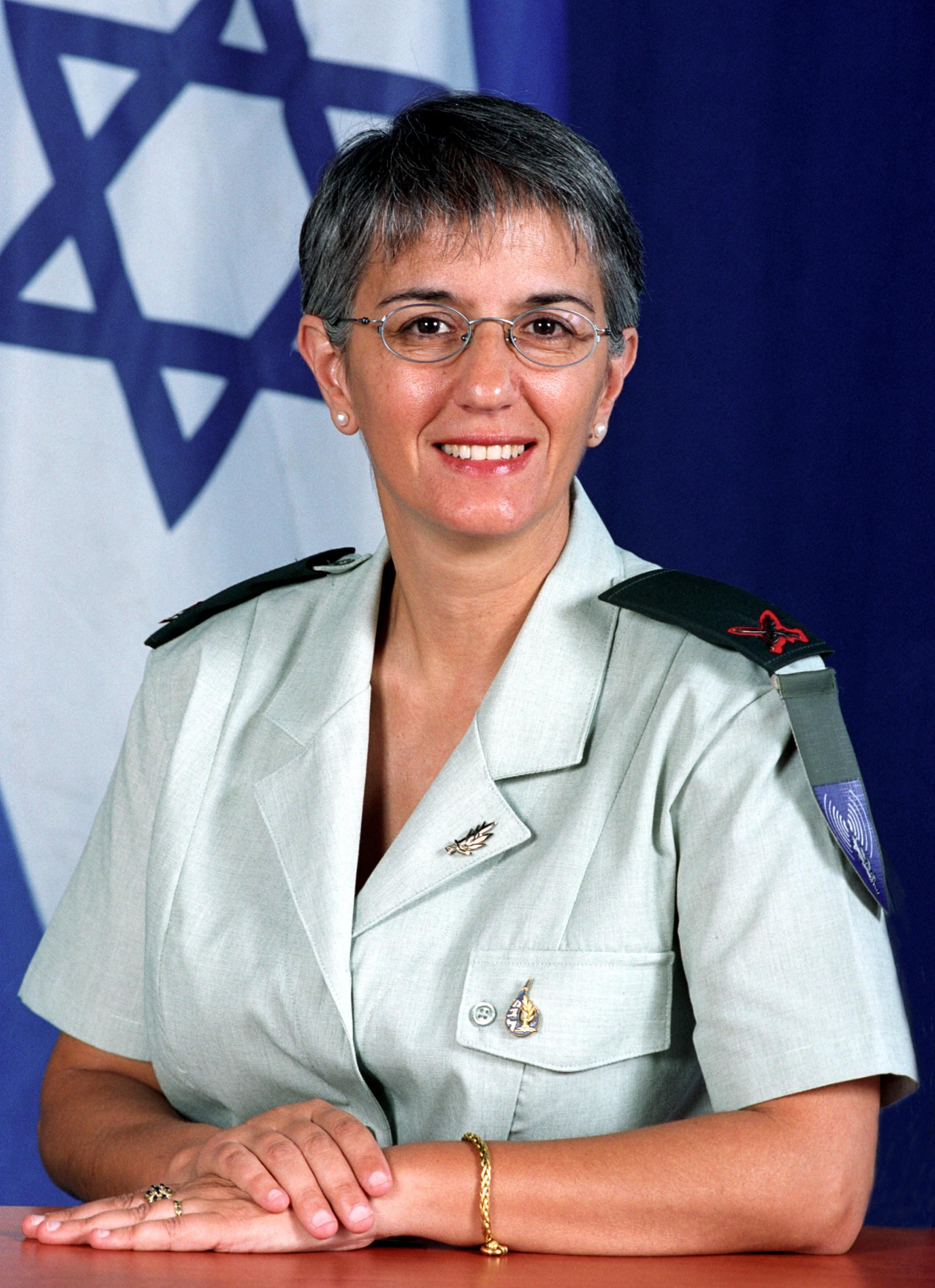 A portrait of IDF spokesman, brig. general Ruth Yaron.